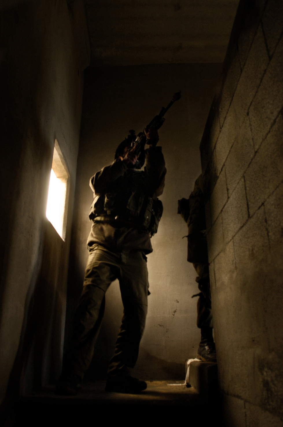 The Israel Defense Forces Facebook • blog • Twitter